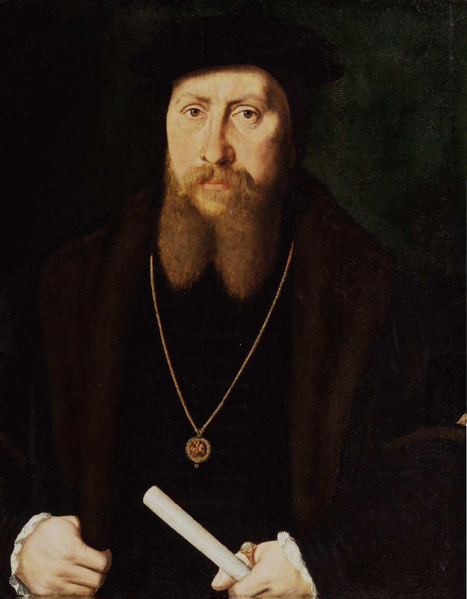 Piece of art with William Paget represented. Produced sometime between 1506 and June 9, 1563 (his birth and death dates) and thus all copyrights have expired (current estimate of the date is circa 1549–1552). Painting formerly attributed to the Master of the Stätthalterin Madonna, currently listed by the museum as a work of an unknown Flemish artist.